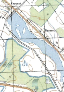 Papilys dam 1990